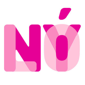 Nýlistasafnið logo